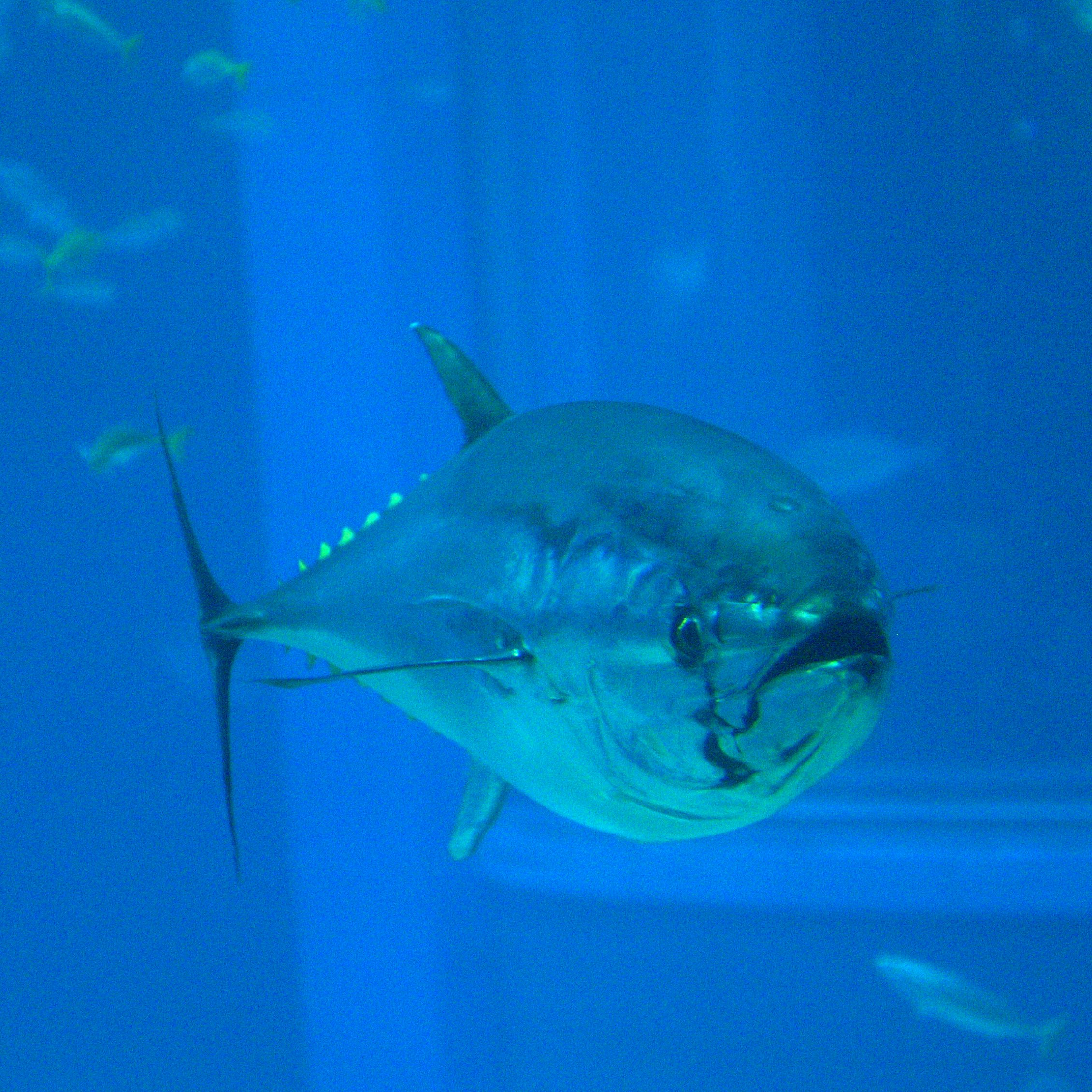 Thunnus orientalis (formerly a race of Thunnus thynnus) at Osaka Kaiyukan Aquarium, Japan